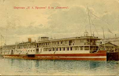 Steamship "I.A. Krylov" of Samolyot company